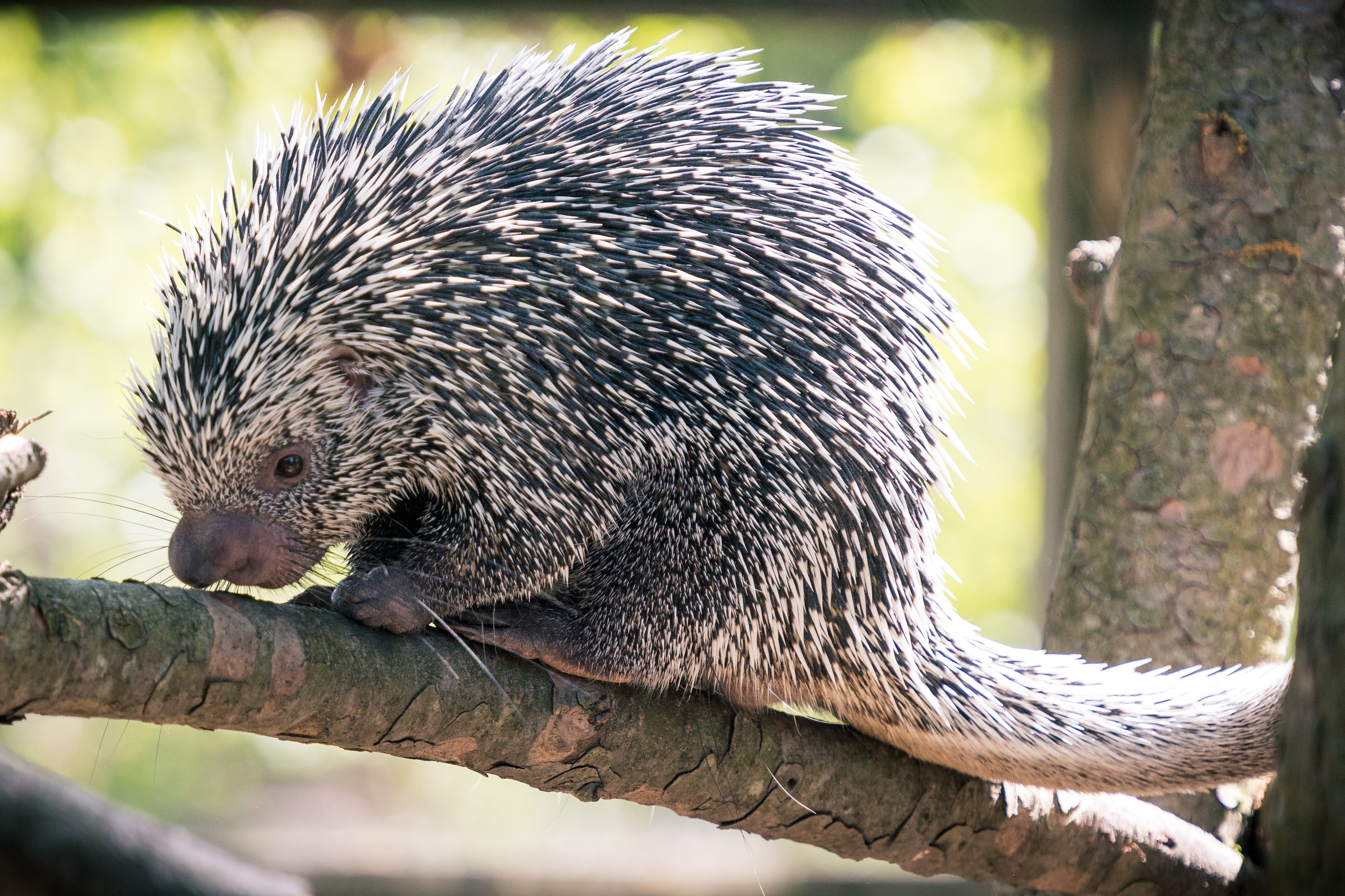 Prehensile Tail Porcupine Curled and Relaxed